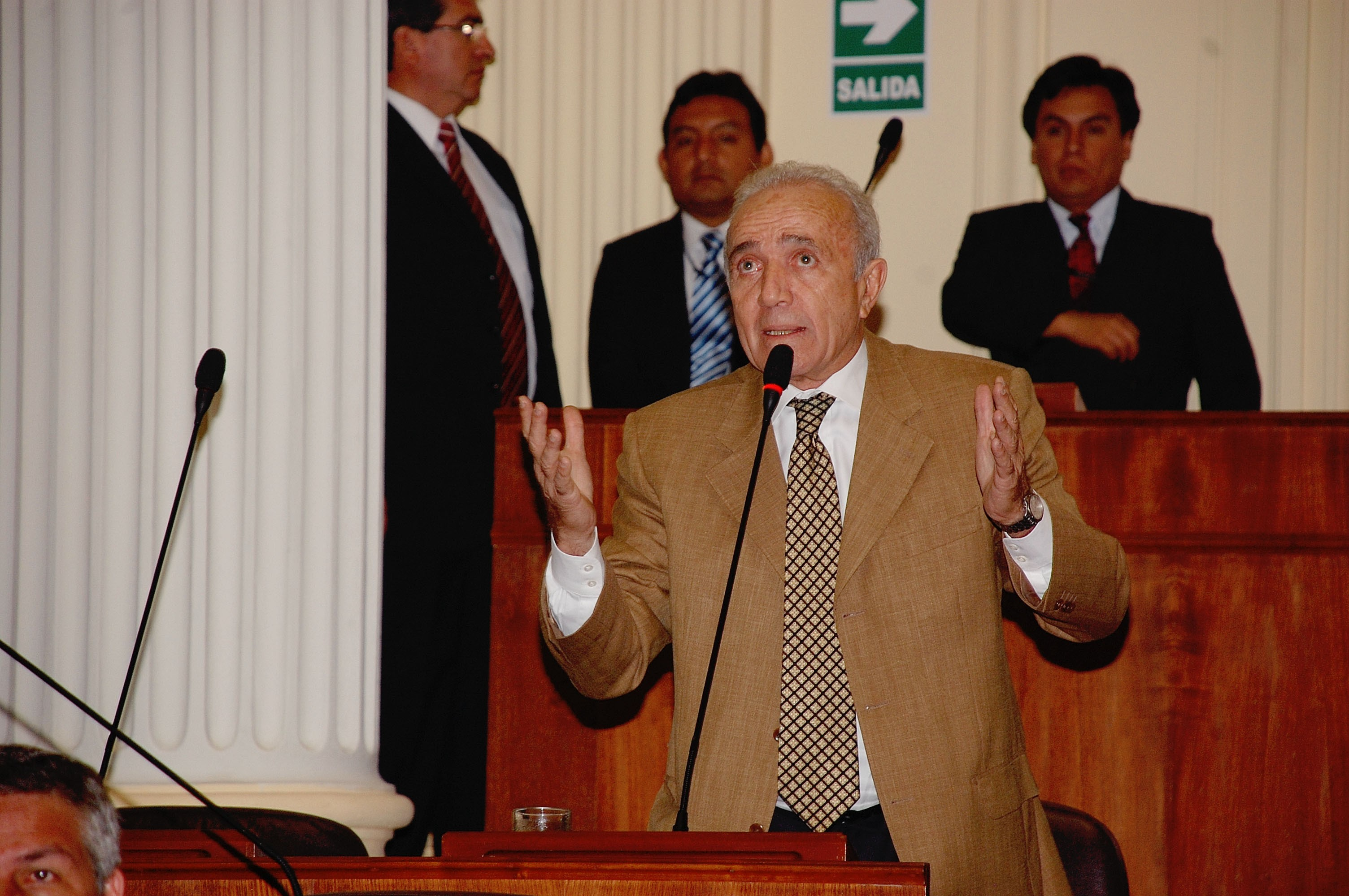 Guido Ricardo Lombardi Elías (born 9 December 1949; Tacna, Peru) is a Peruvian journalist, lawyer, and politician. The lawmaker Guido Lombardi expressed his position in the parliamentary debate held 2011-03-03 morning by the House in Congress.